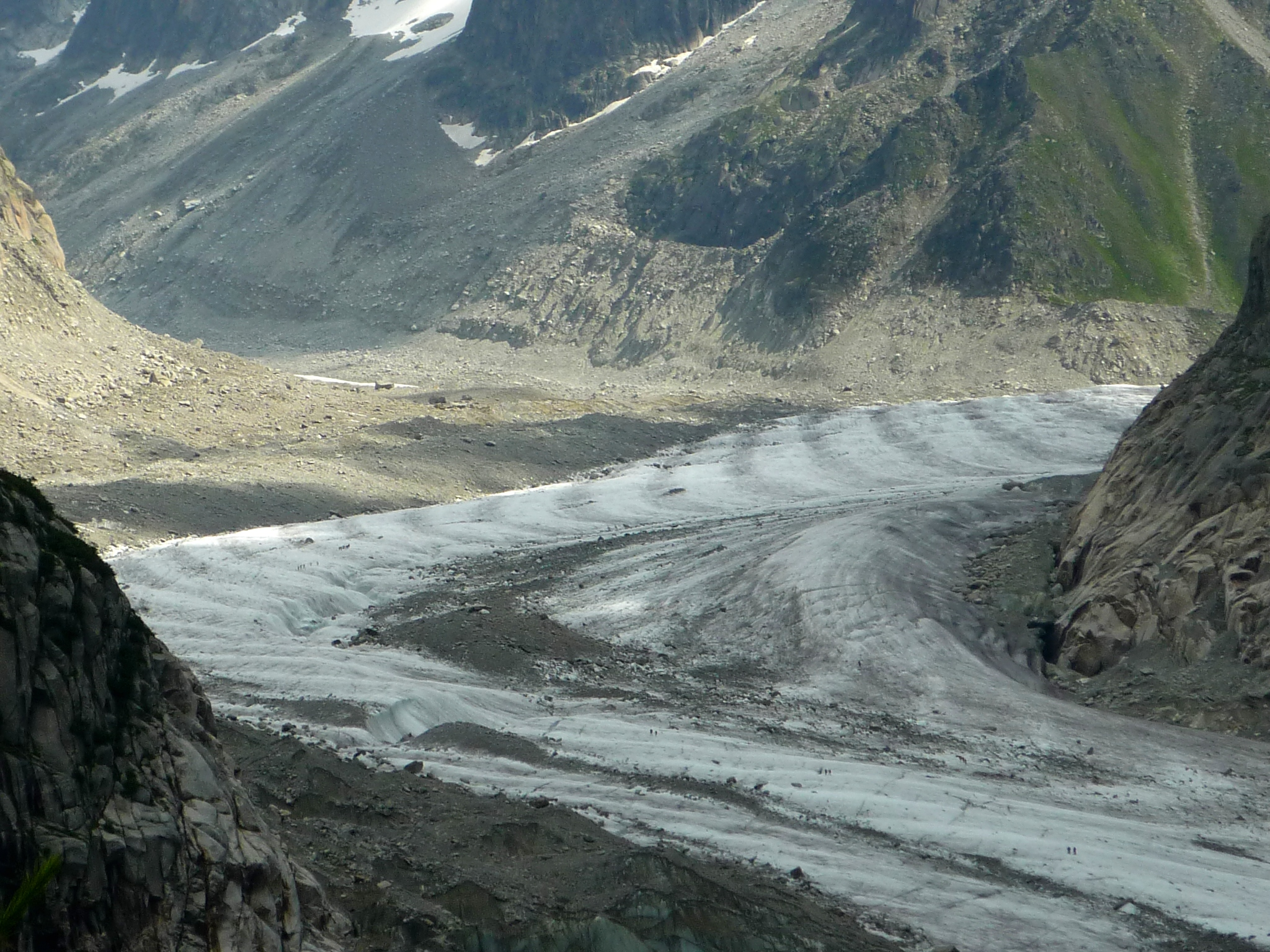 Begining of the mer de Glace, Chamonix-Mont-Blanc, Haute-Savoie, France